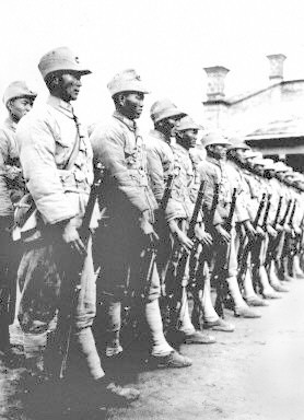 Nationalist Chinese soldiers with guns.